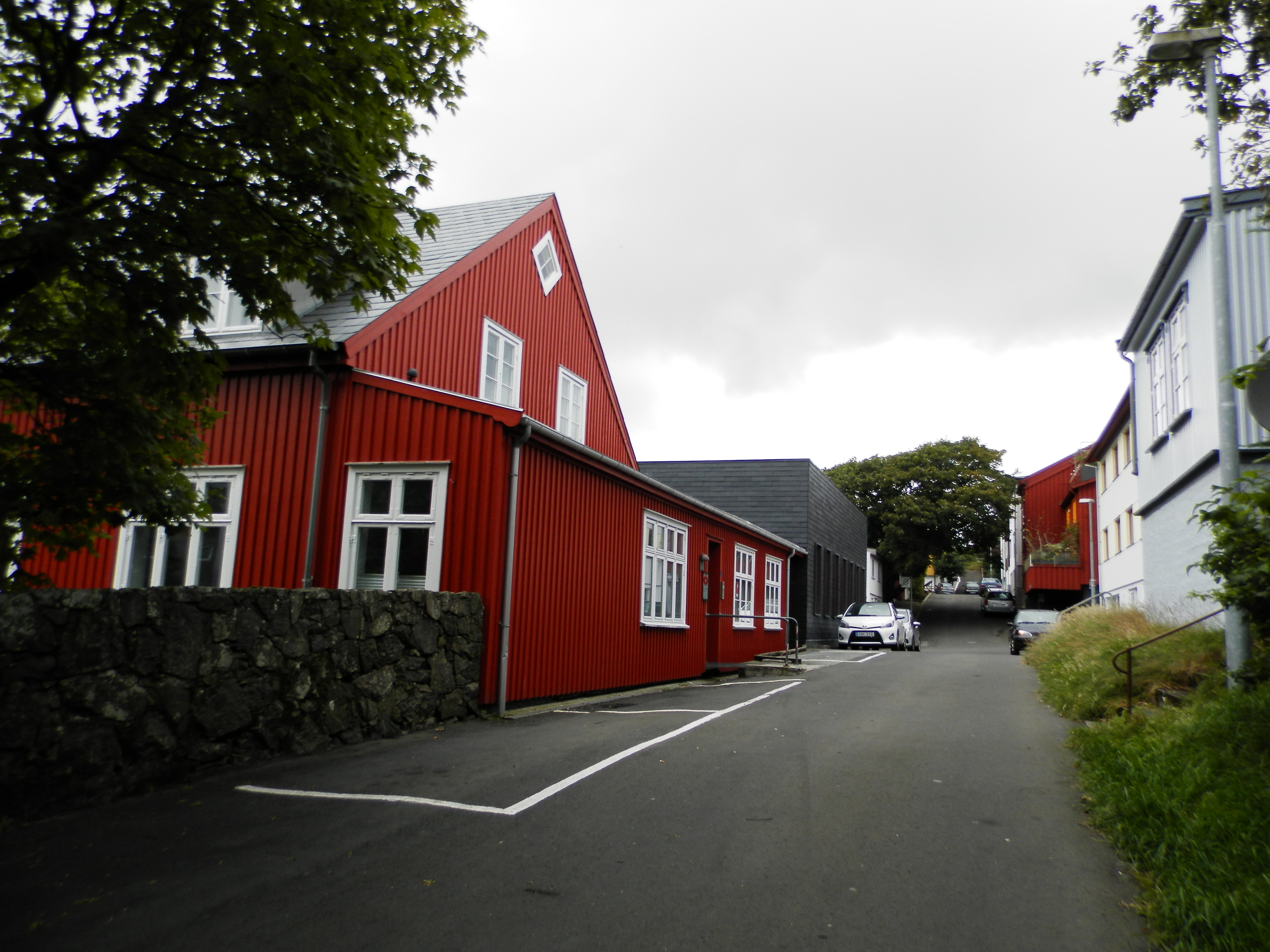 The Court of the Faroe Islands. Sorinskrivarin. C. Pløyensgøta 1, Tórshavn.